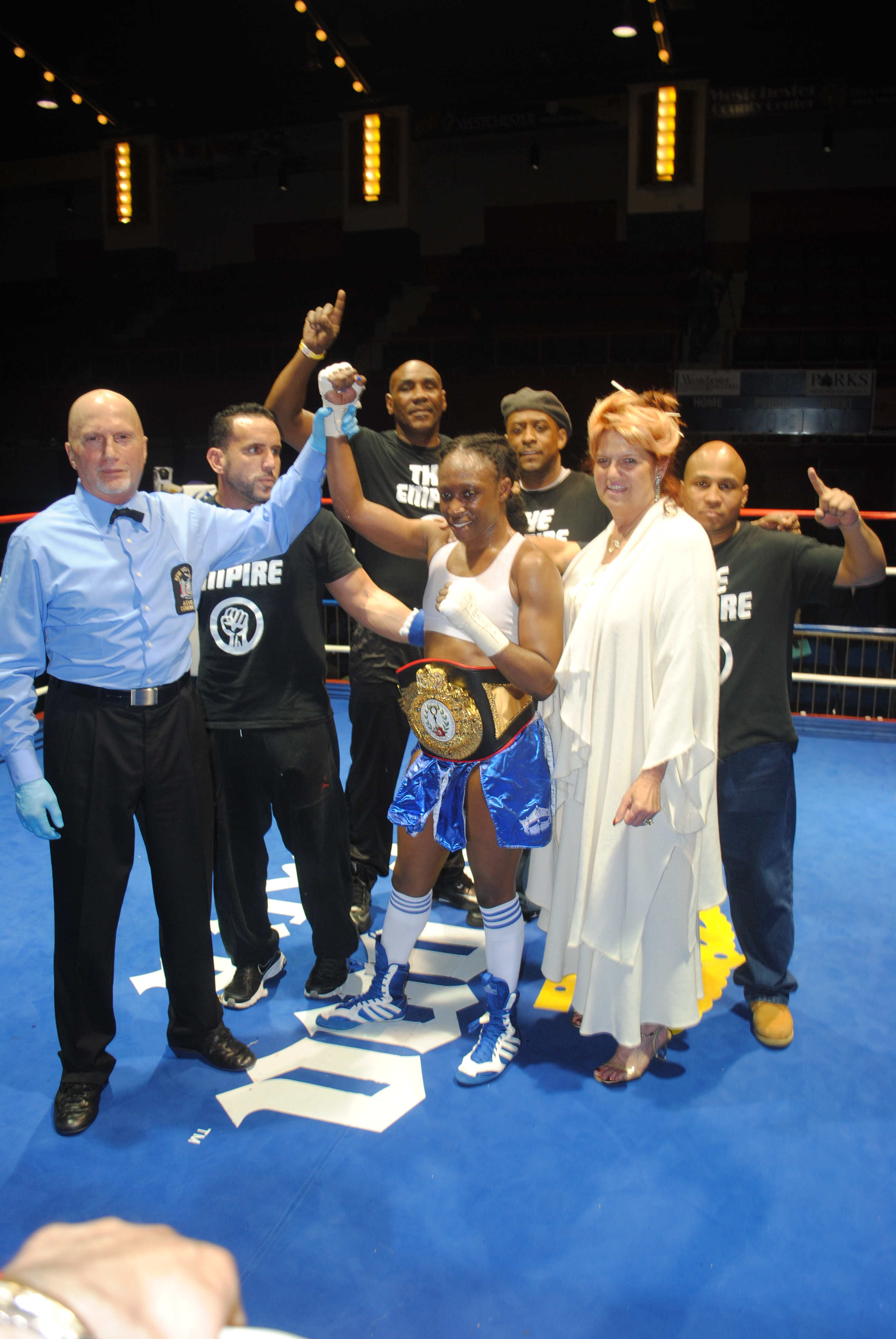 Referee Ron Lipton raises the hand of new IWBF World Super Featherweight champion Ronica Jeffrey at Westchester County Center.